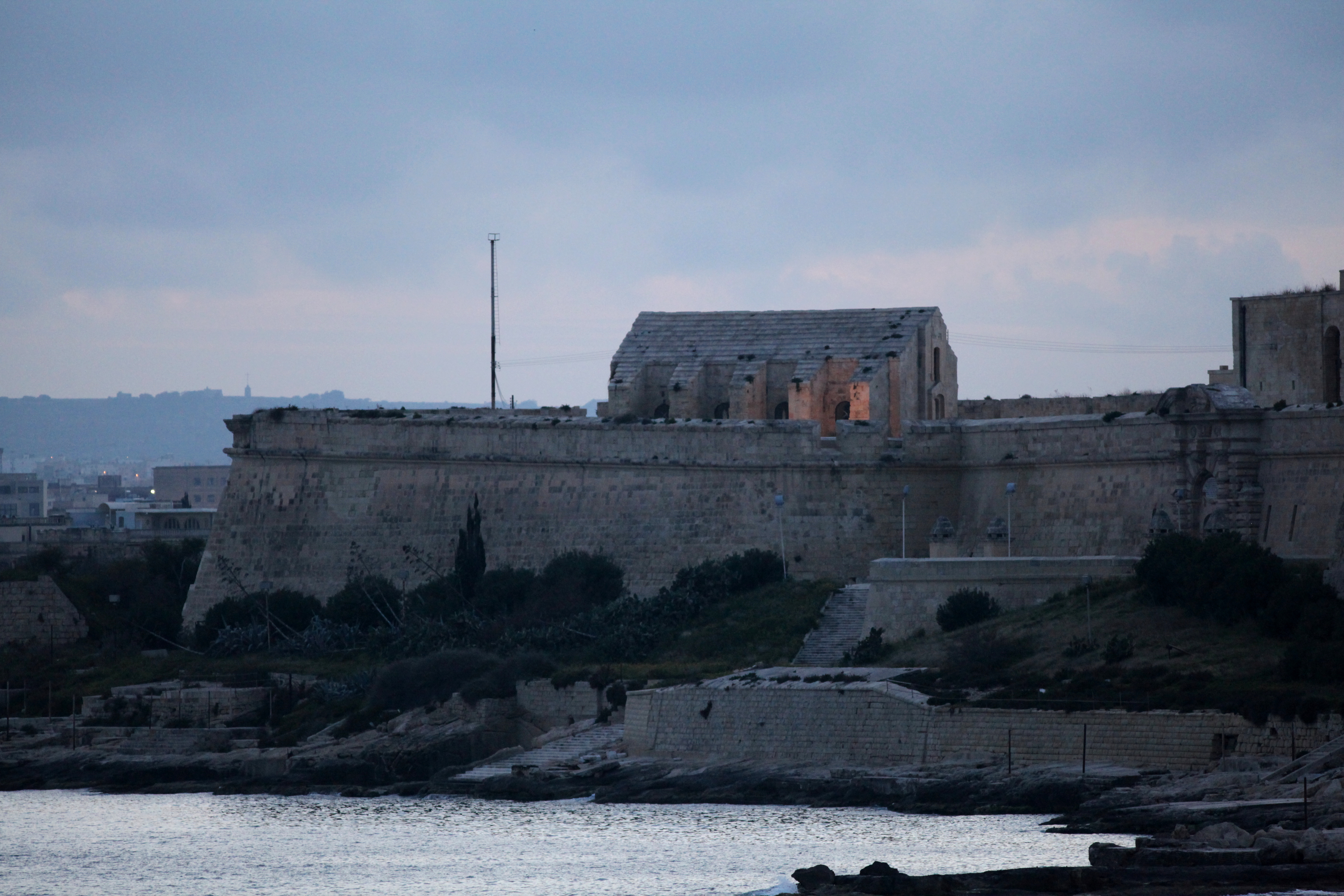 View from the Tigné Point outer trail in Sliema to Fort Manoel, Gżira, Malta